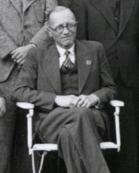 Wilhelm Westphal, 1935 at Stuttgart on the occasion of a physicists congress.